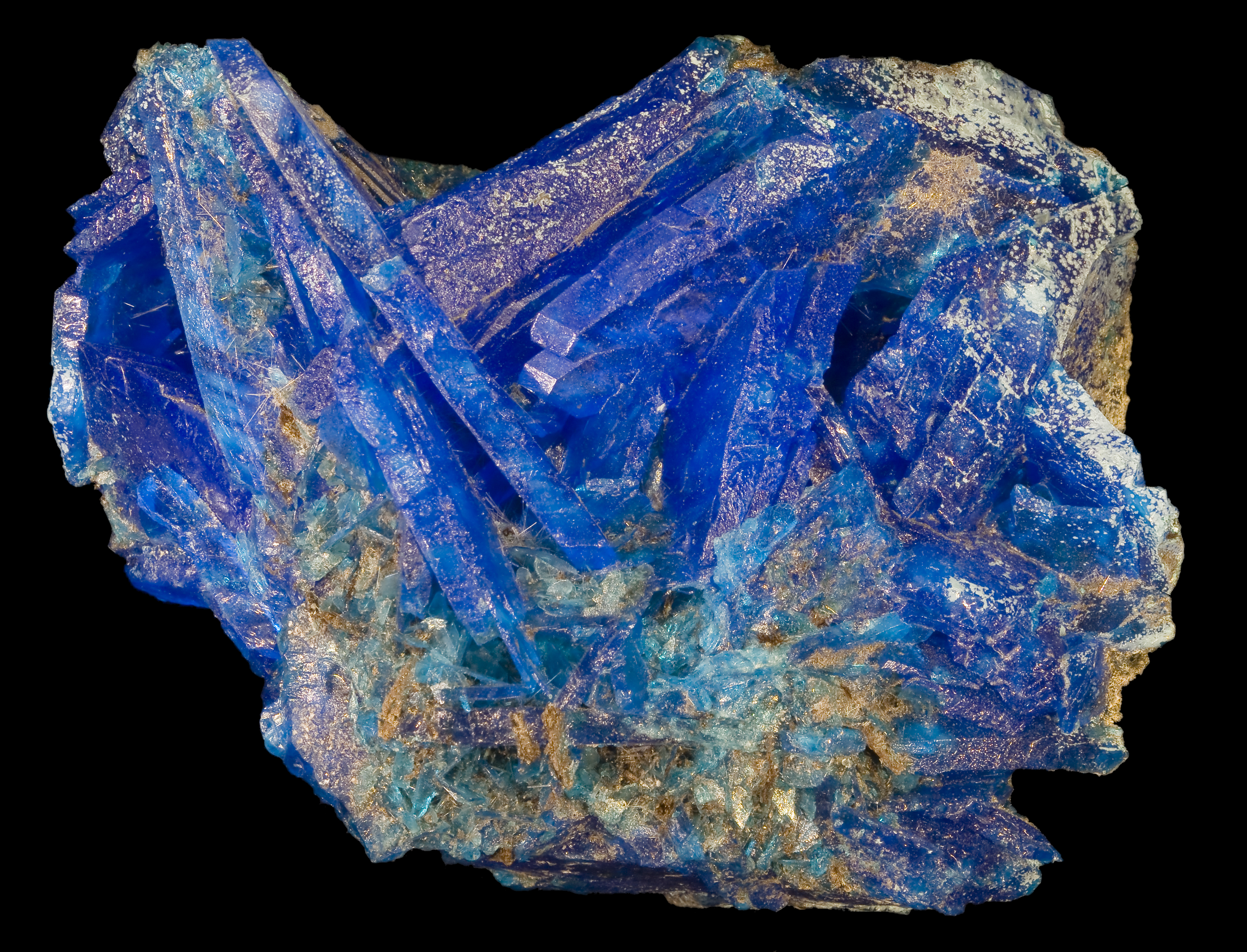 Chalcanthite and Gypsum - Canaveille mine - Pyrénées Orientales France (20x16cm)